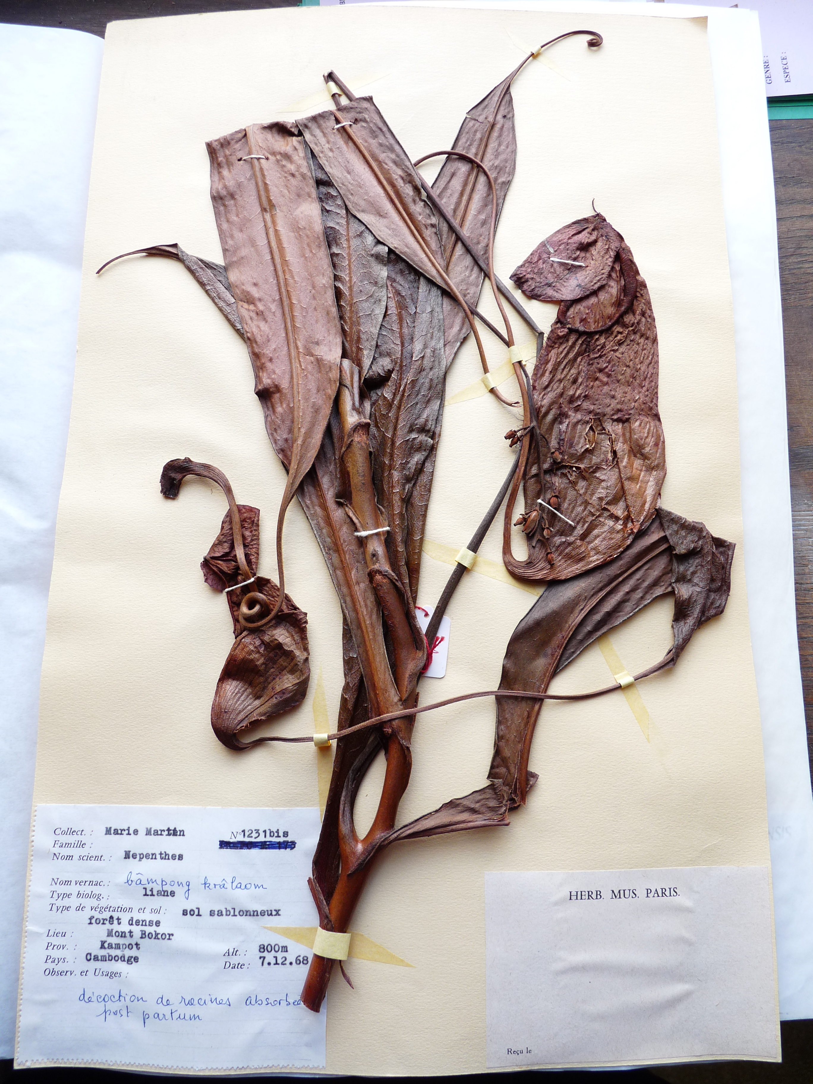 Holotype of Nepenthes bokorensis (M.Martin 1231bis) deposited at the Museum National d'Histoire Naturelle in Paris, France.